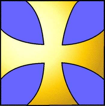 Quarter of Archbishop (Empire)